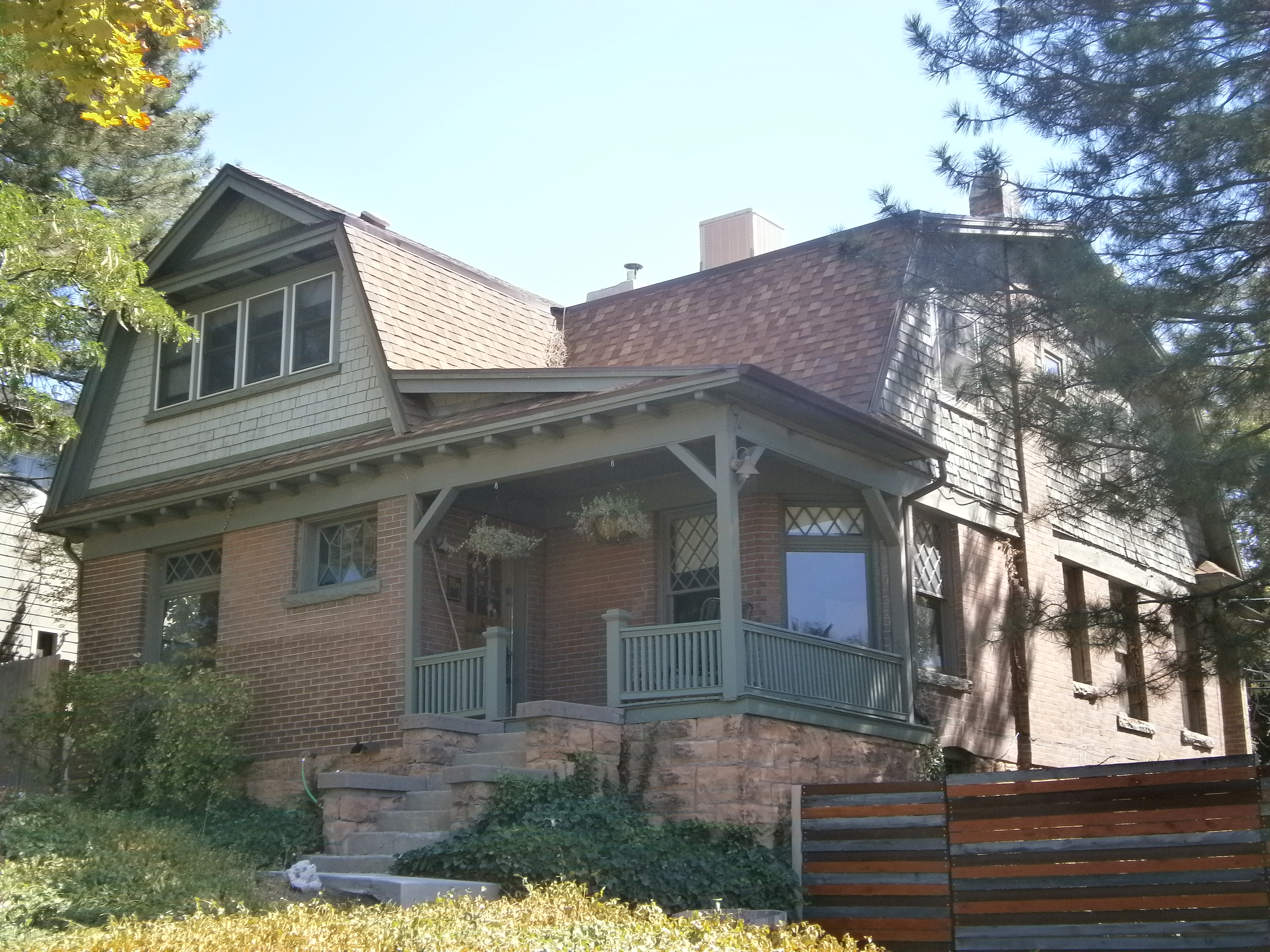 The J. Leo Fairbanks House, a historic home in the Sugar House neighborhood of Salt Lake City, Utah, United States.